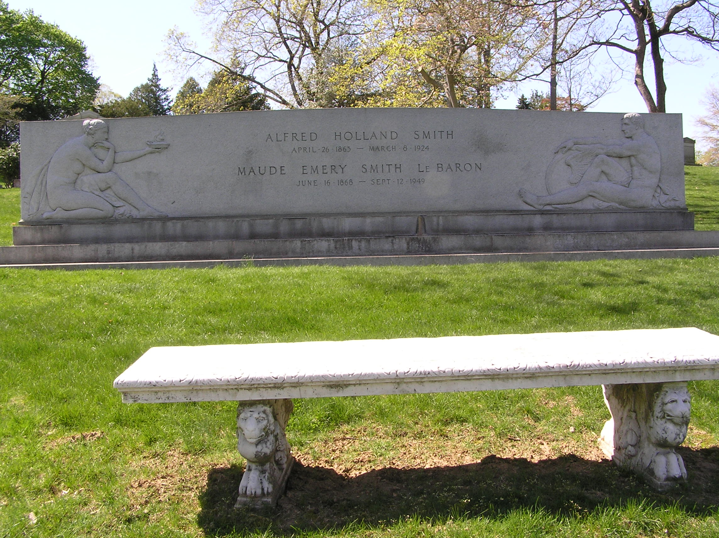 The gravesite of Alfred Holland Smith in Kensico Cemetery